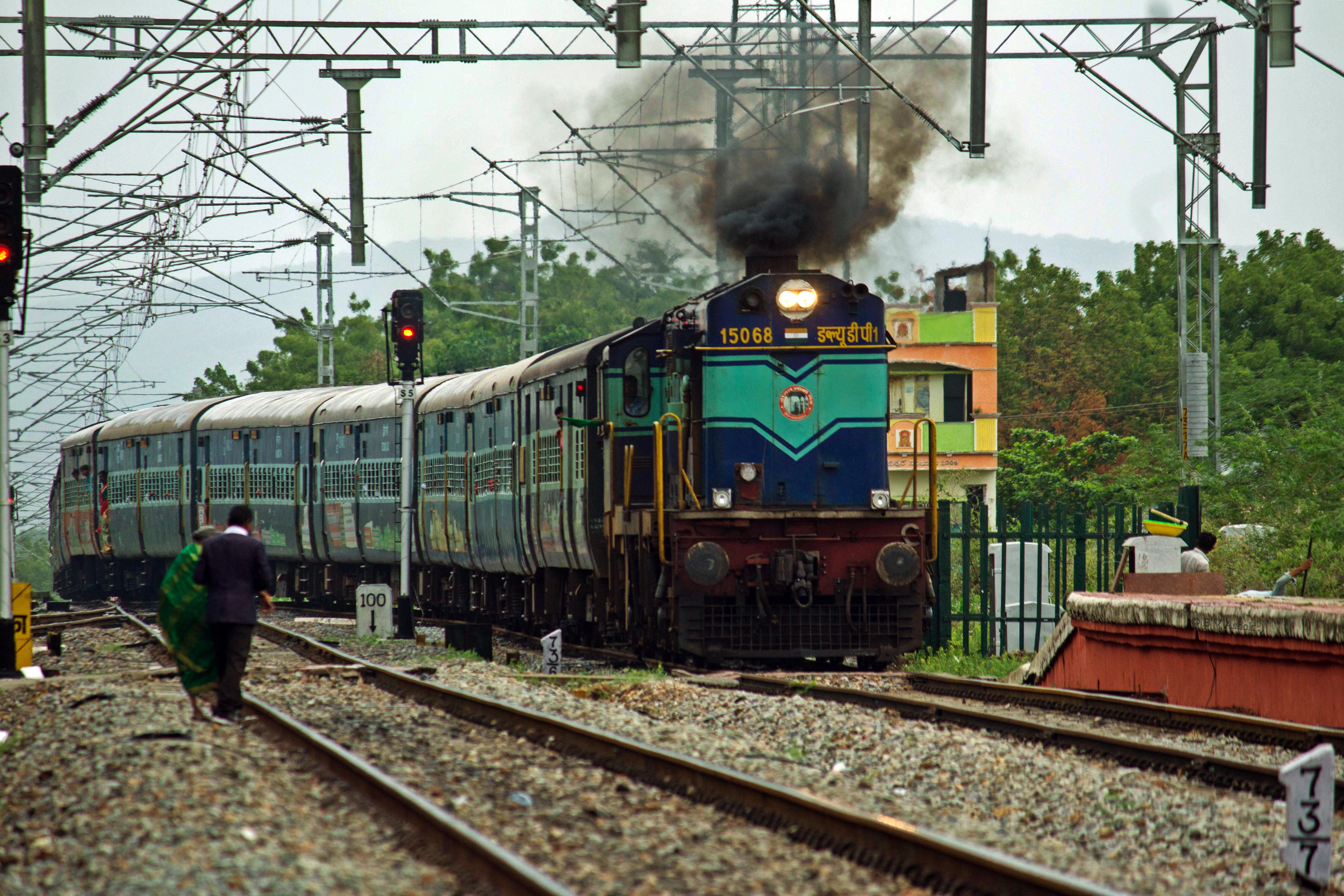 GNT - MCLA Pass.